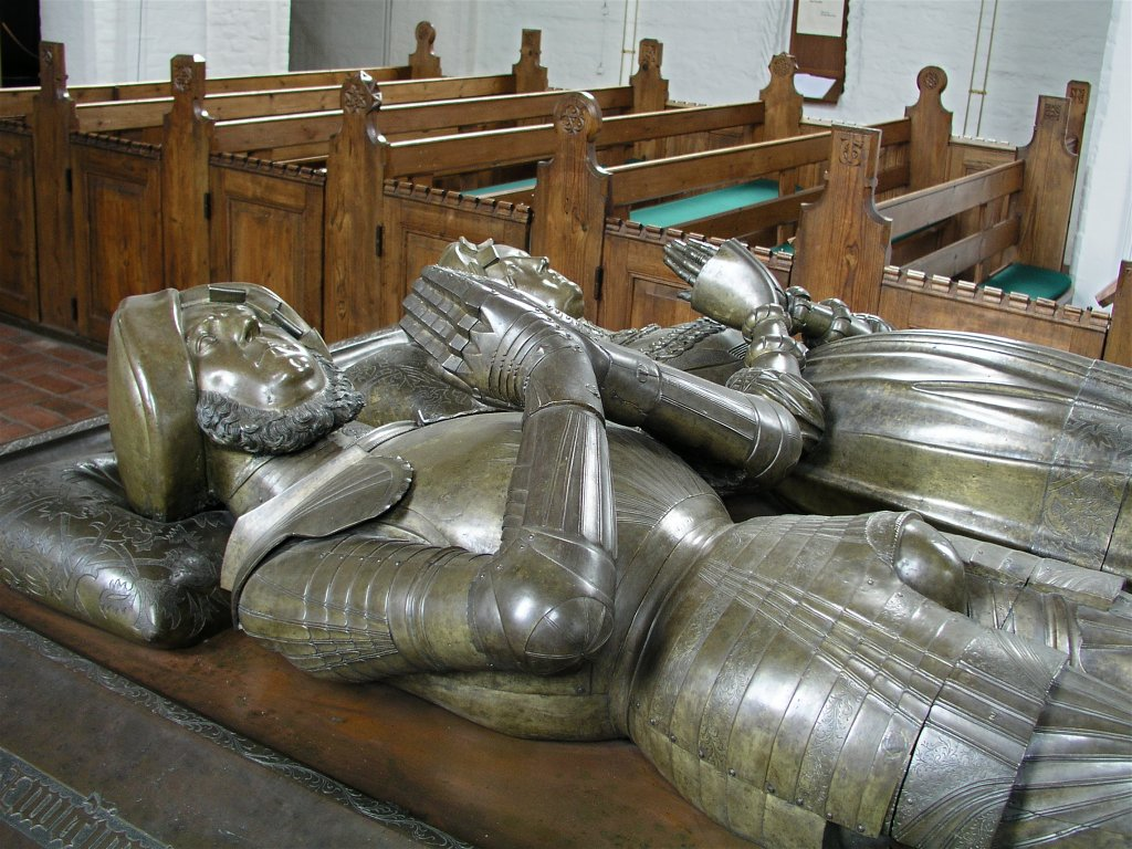 Bordesholm (Germany), monastery-church,tomb, photo 2007